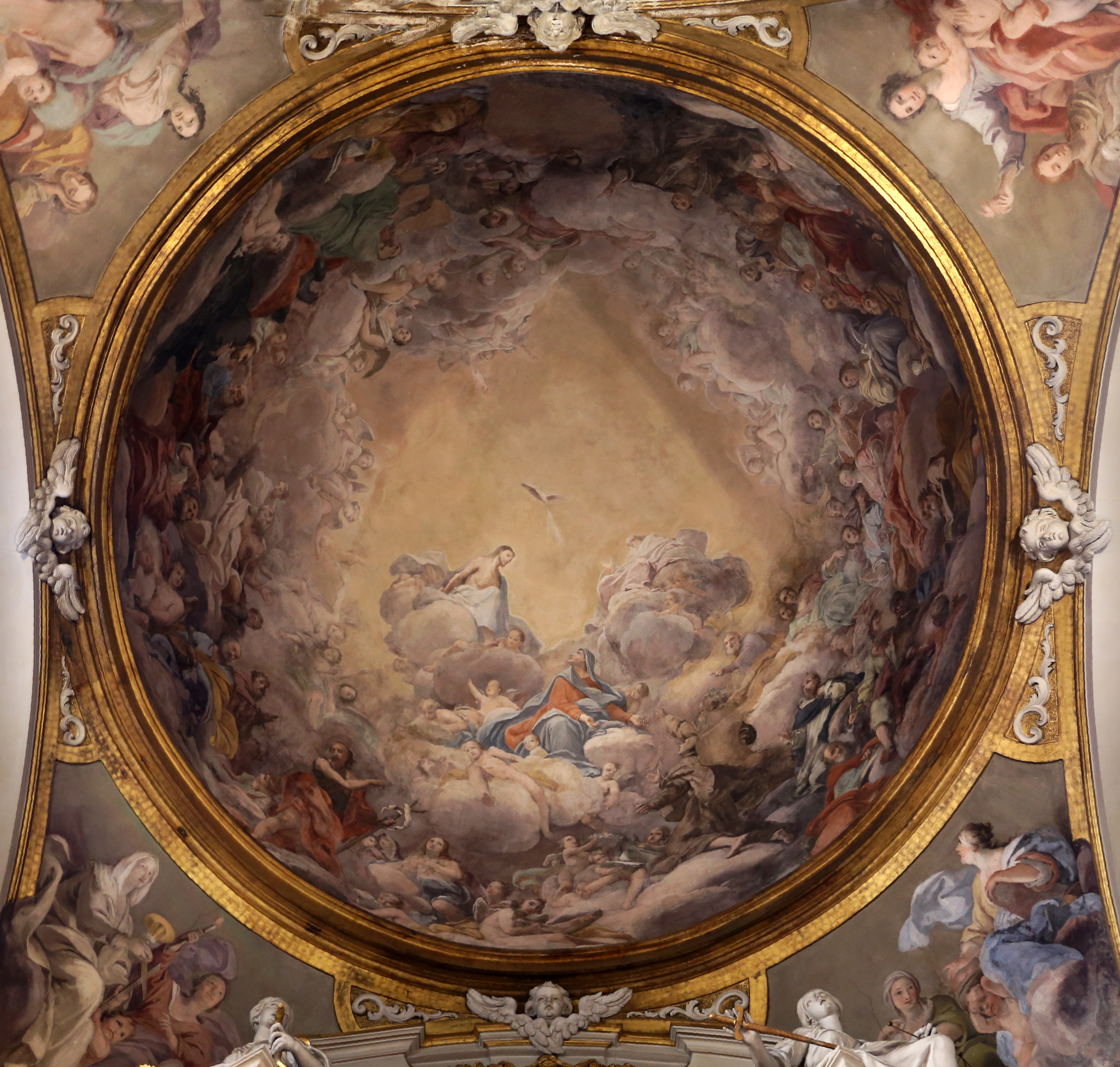 Ognissanti (Florence) - Interior